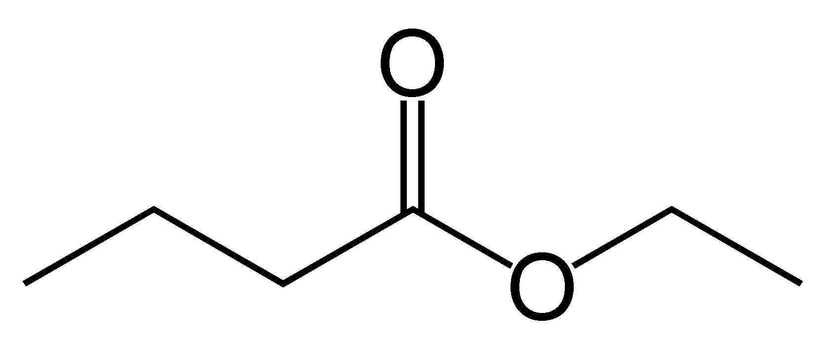 Chemical structure of ethyl butyrate. Created by Mysid in ChemDraw on September 14, 2005. GFDL.